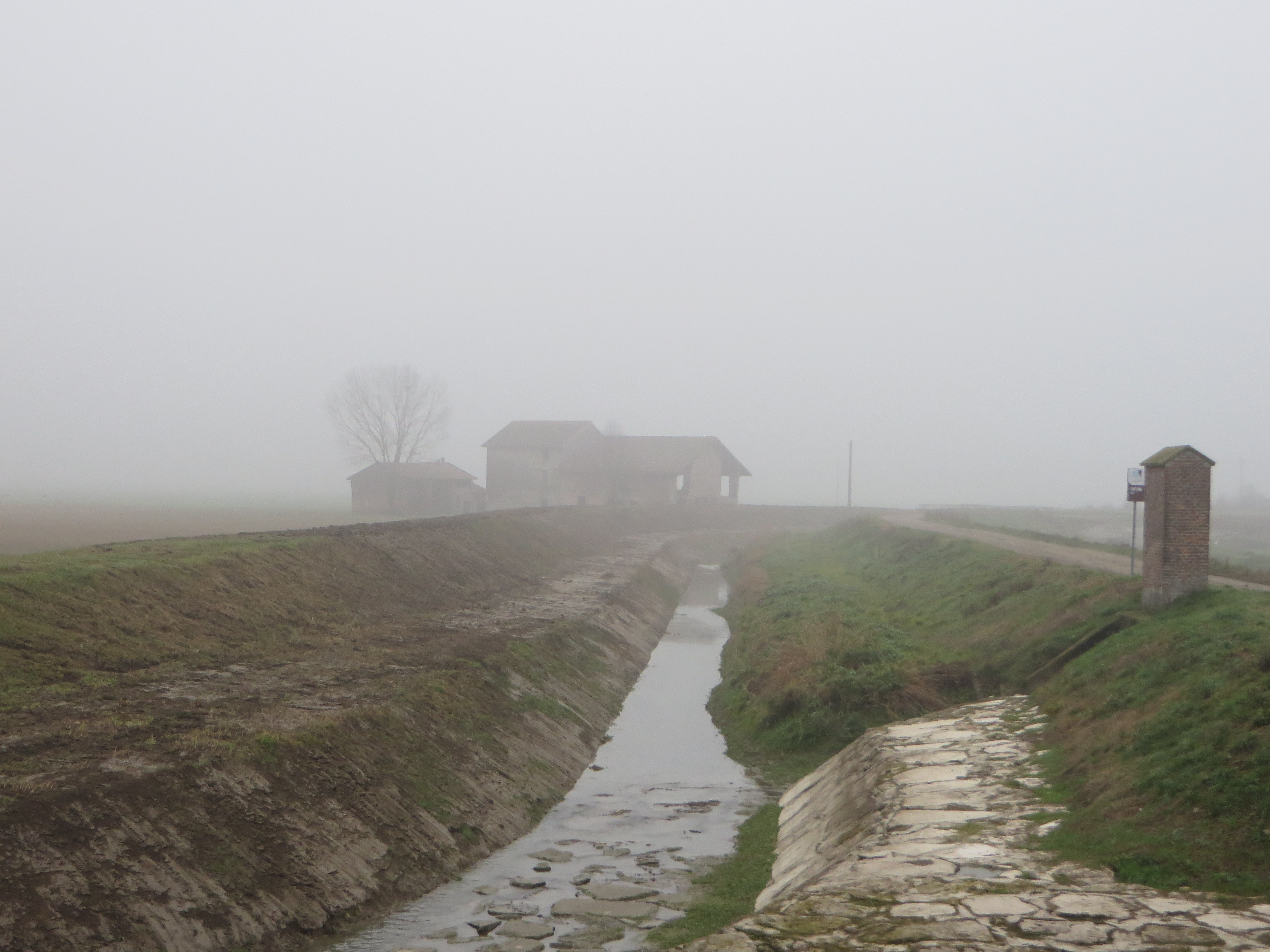 Rigosa canal